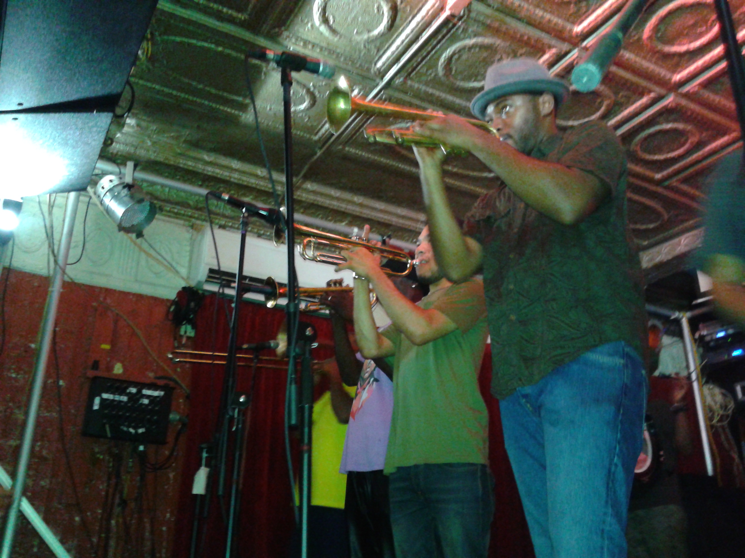 Rebirth Brass Band performing at the Maple Leaf in New Orleans on 12-15-2015. (Far left to right - Stafford Agee, Glen Andrews, Glenn Hall, Chadrick Honore)